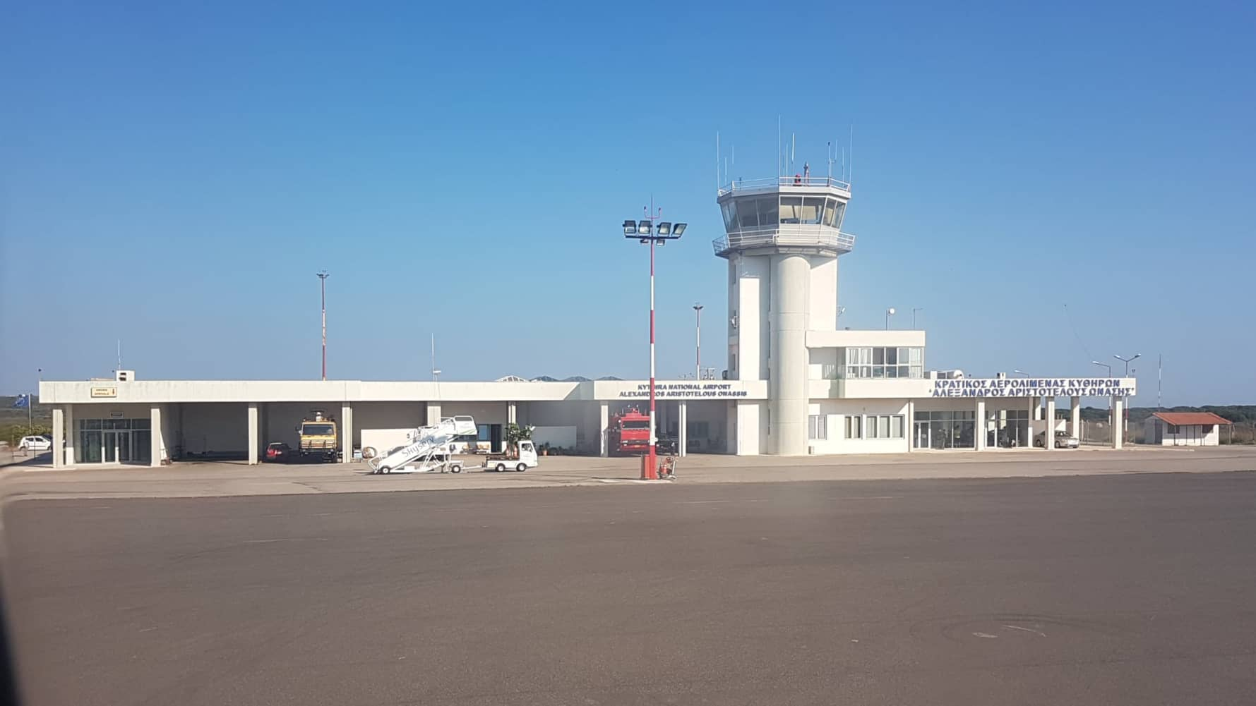 The airport building, 2018